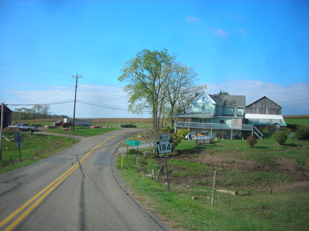 Pennsylvania State Route 184 heading westward through Beech Grove. The signage in the distance marks the length to White Pine and Brookside.